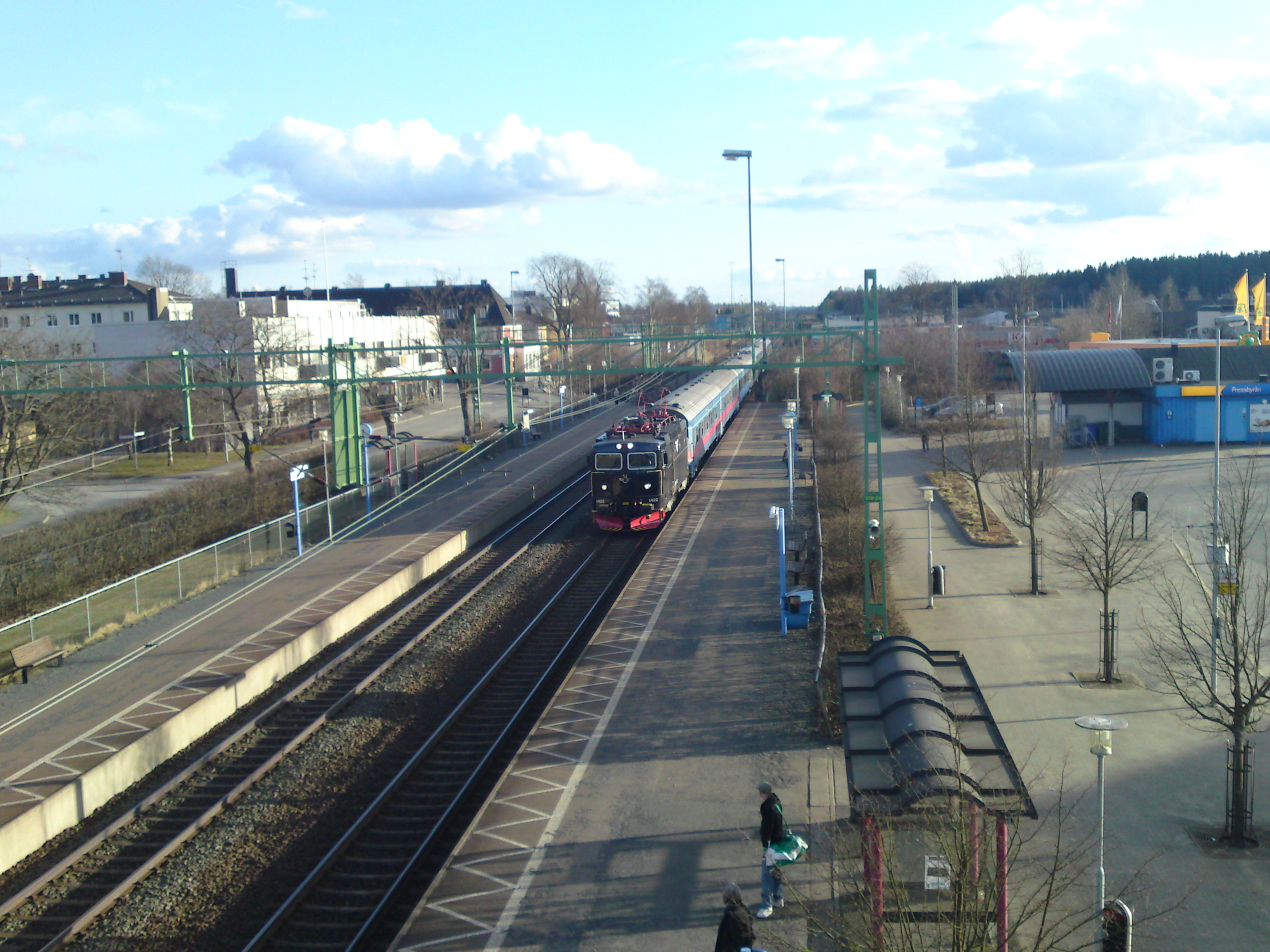 Train arrival to Sävsjö station, from Malmö C and in direction to Stockholm C.